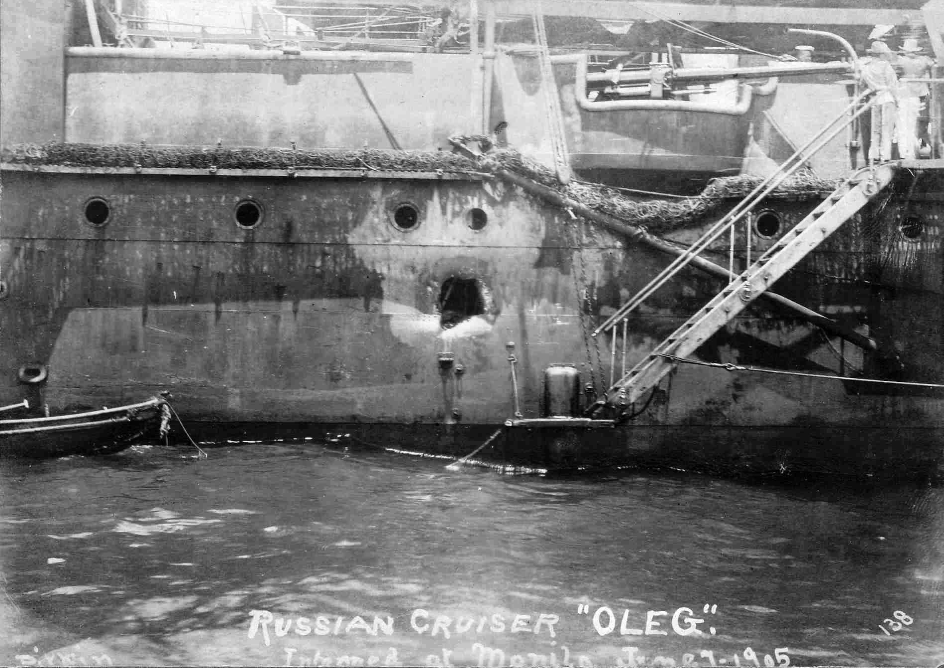 Russian protected cruiser Oleg, showing battle damage after the Battle of Tsushima. Original sepia-tint photograph slightly digitally-enhanced and cleaned up.